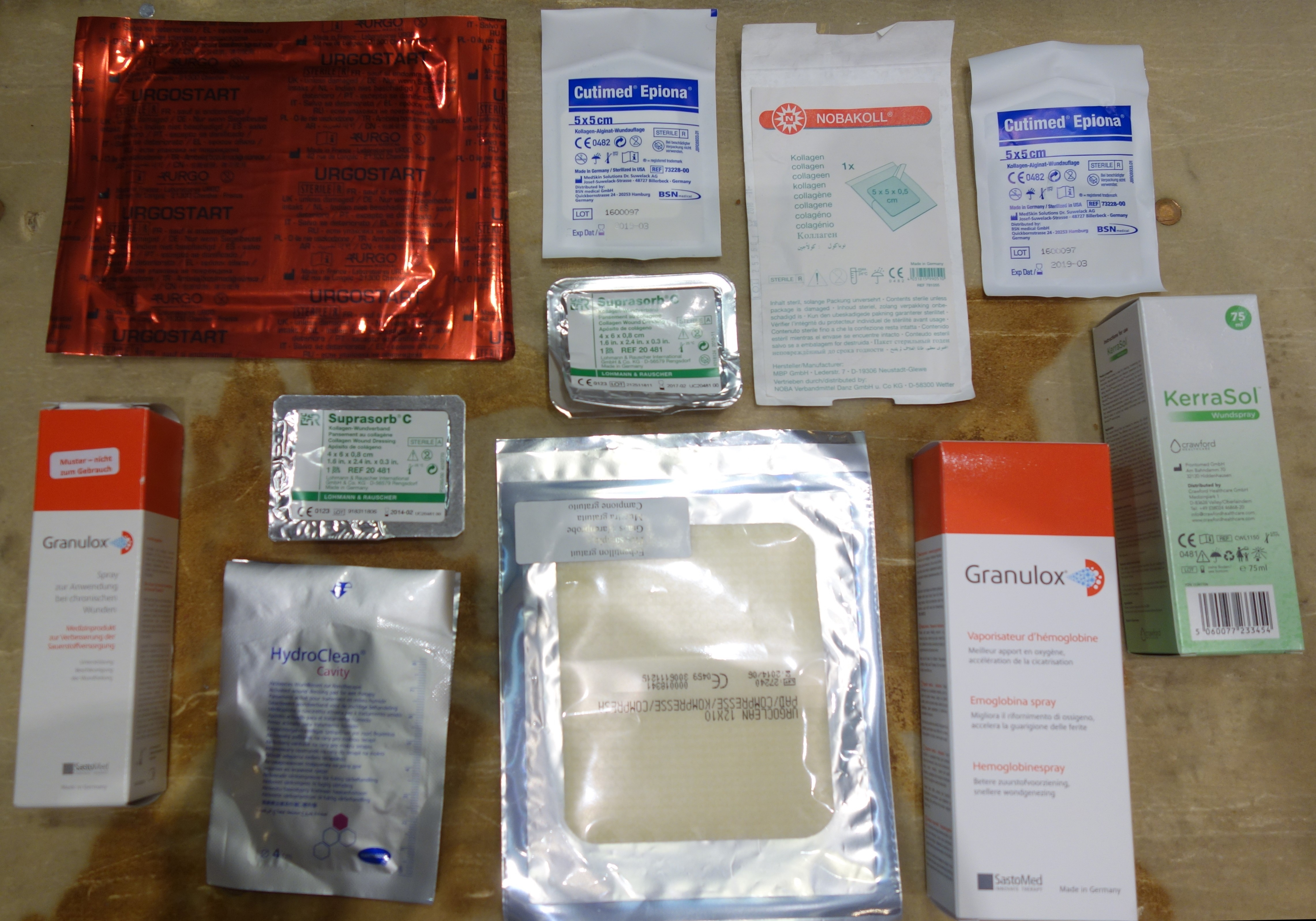 Products for Wound care